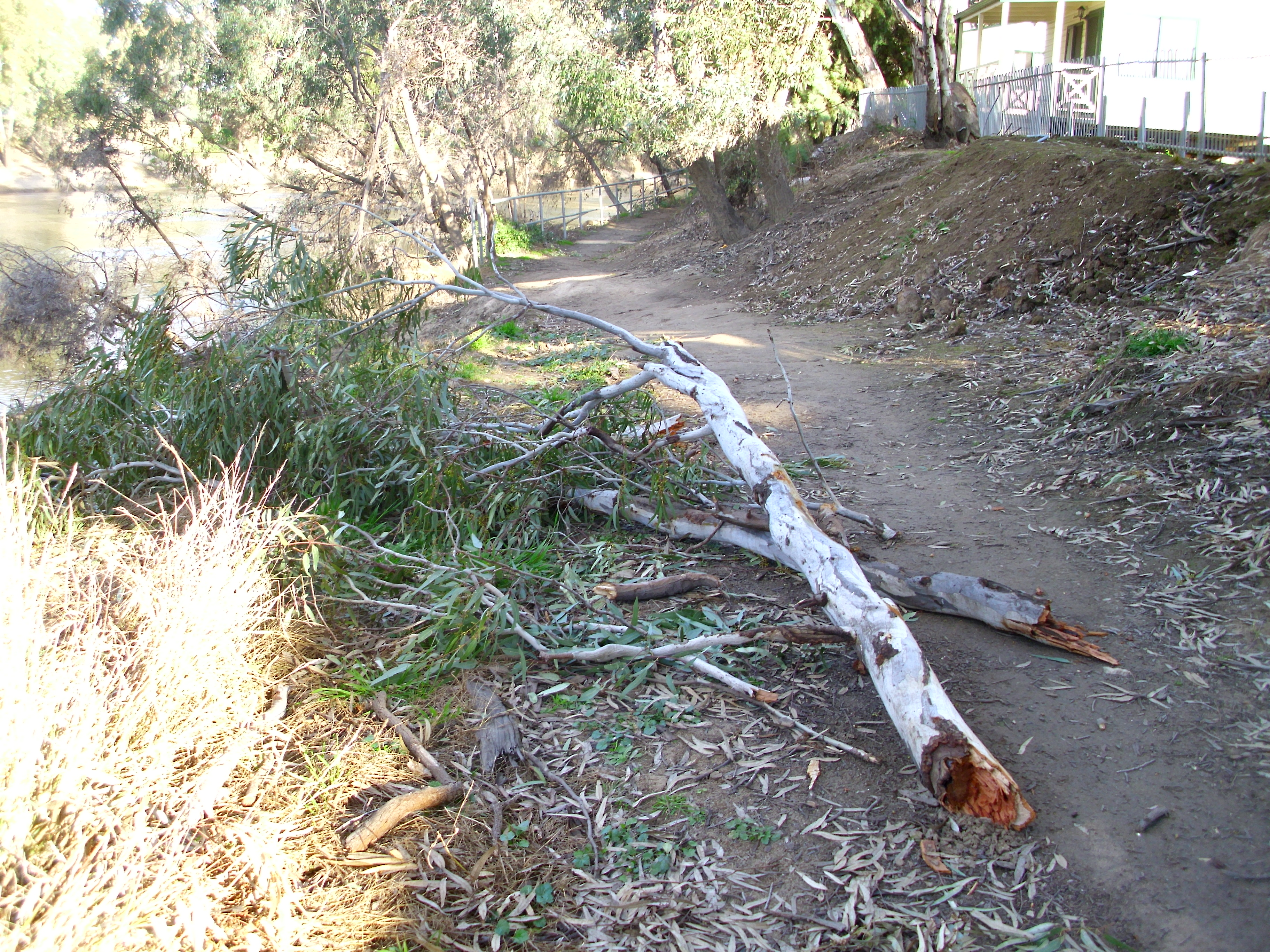 Fallen Eucalyptus camaldulensis limbs on the Wiradjuri Walking Track next to the Murrumbidgee River in Wagga Wagga, NSW, Australia.